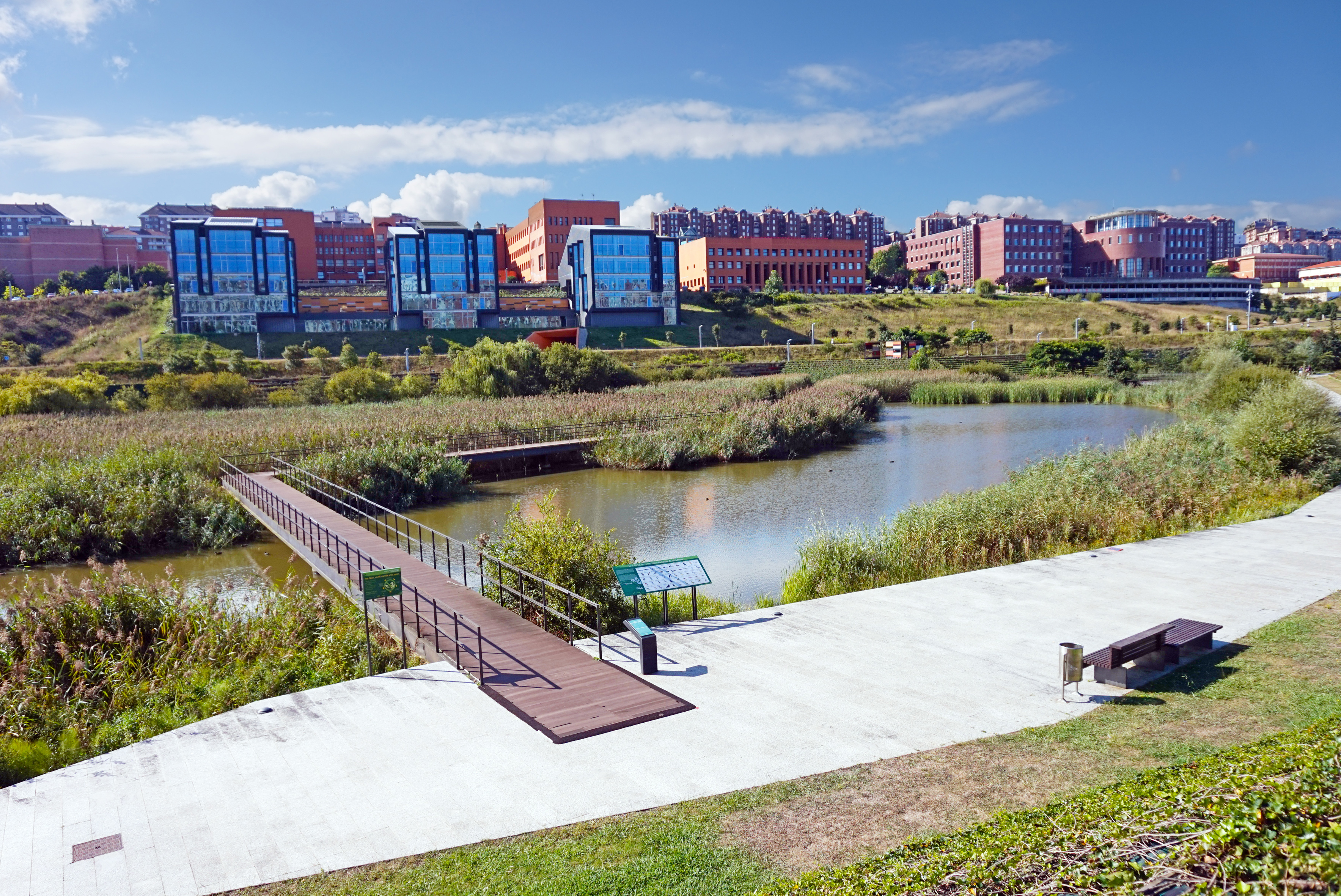 Parque de las Llamas in Santander, Spain. This photograph was taken with a Sony Alpha a5000.